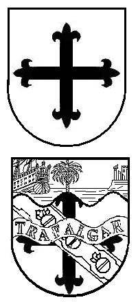 The original and the augmented arms of the first viscount Nelson